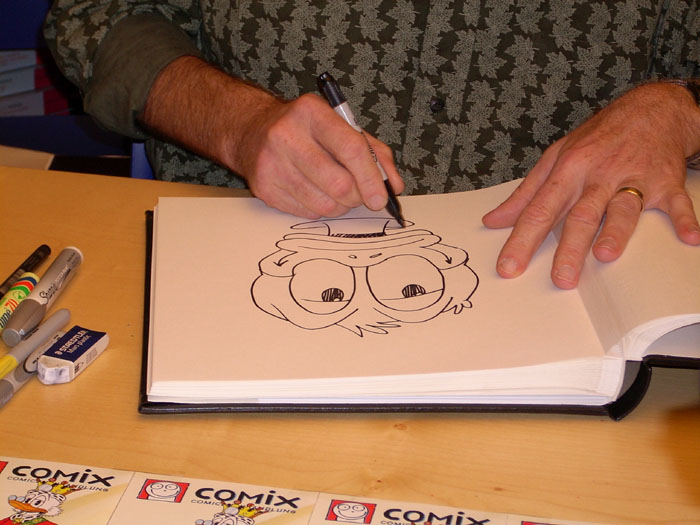 Don Rosa 2008 in Hannover, Germany (Don Rosa Deutschland Tour)